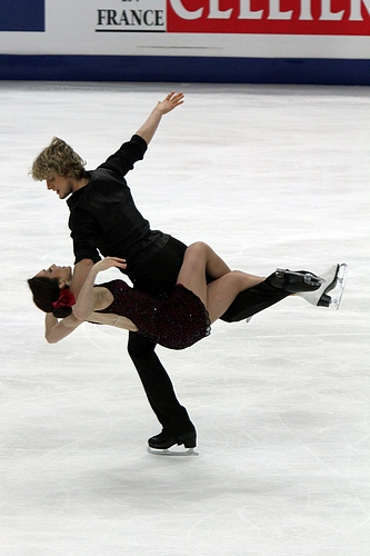 Meryl DAVIS Charlie WHITE at the 2011 World Championships